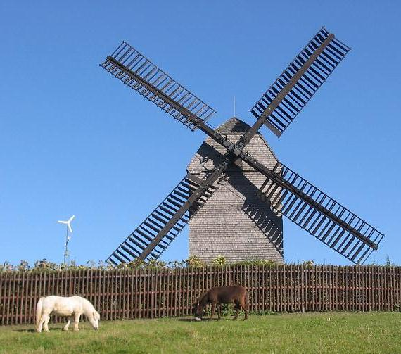 Post mill in Berlin-Marzahn, Germany, new built in 1993.